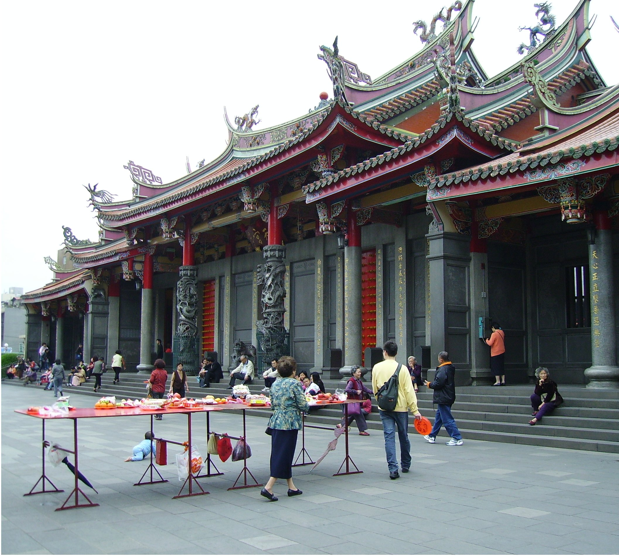 photo by winertai 2006.02.17